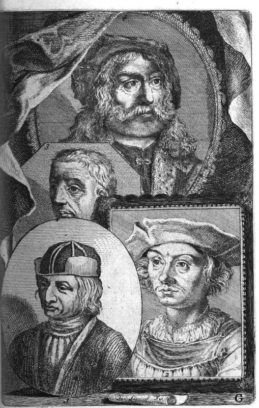 P46 G Albert Ouwater - Rogier van der Weide - Albert Durer - Dirk van Haarlem